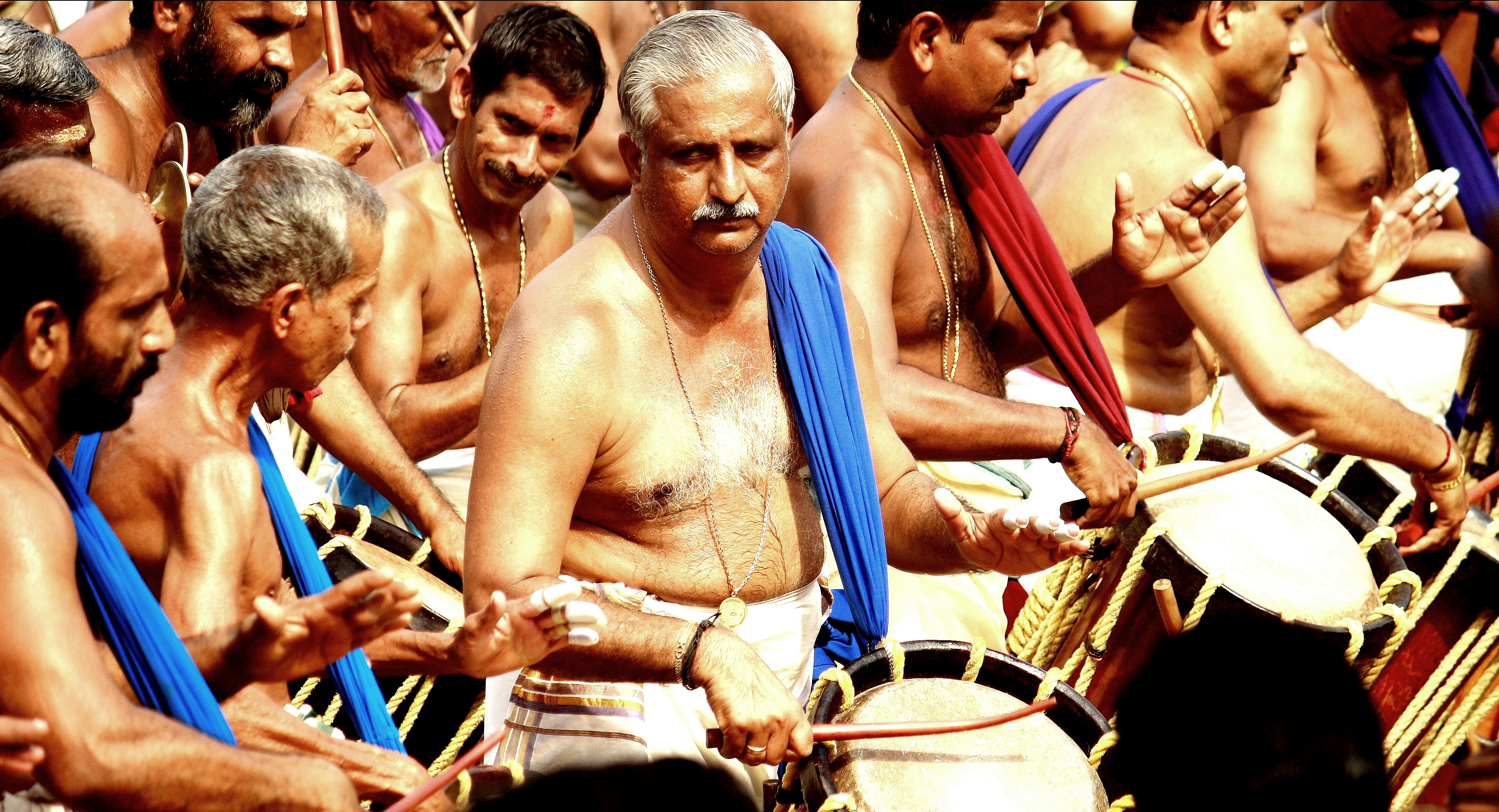 Peruvanam Kuttan Marar performing Melam @ poornathryeesa temple, Tripunithura, Kerala, India